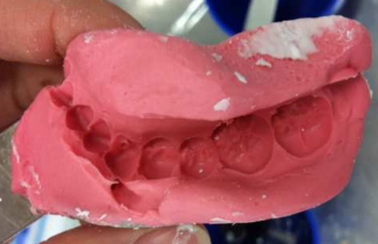 A dental impression body taken by alginate.